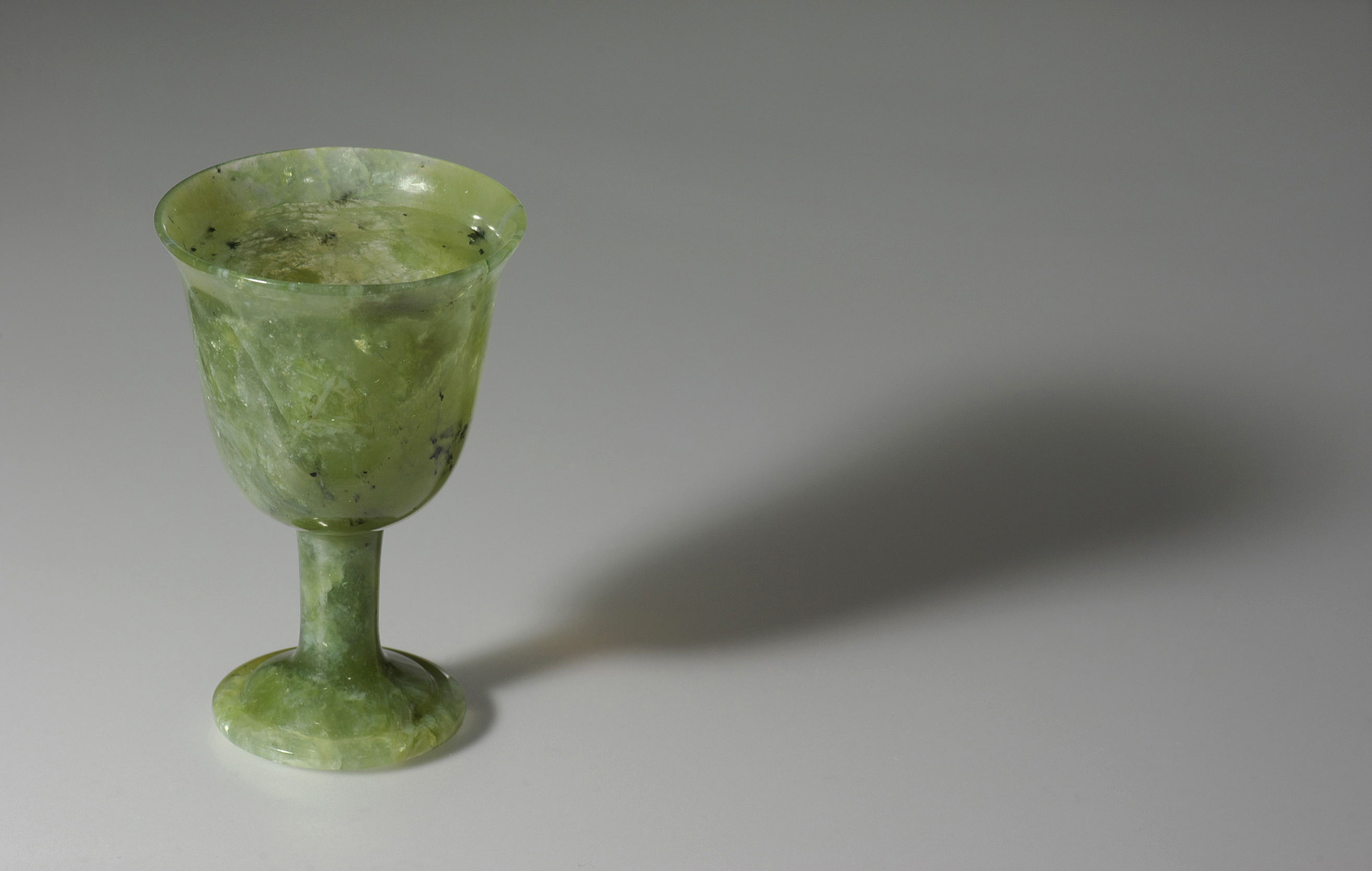 Small Jade cup and water. The height is 60mm.